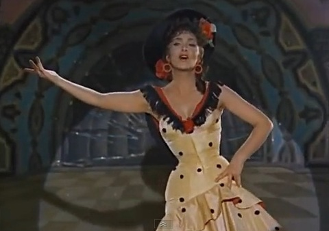 Beautiful but Dangerous (1955)